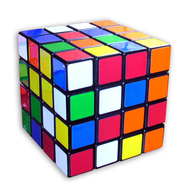 Rubik's Revenge in scrambled state